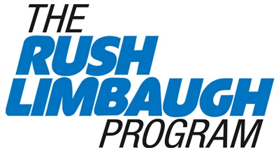 The logo for the Rush Limbaugh Show.